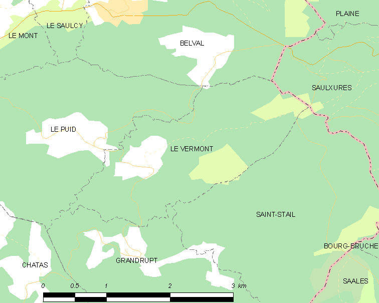 Map of French municipality Le Vermont